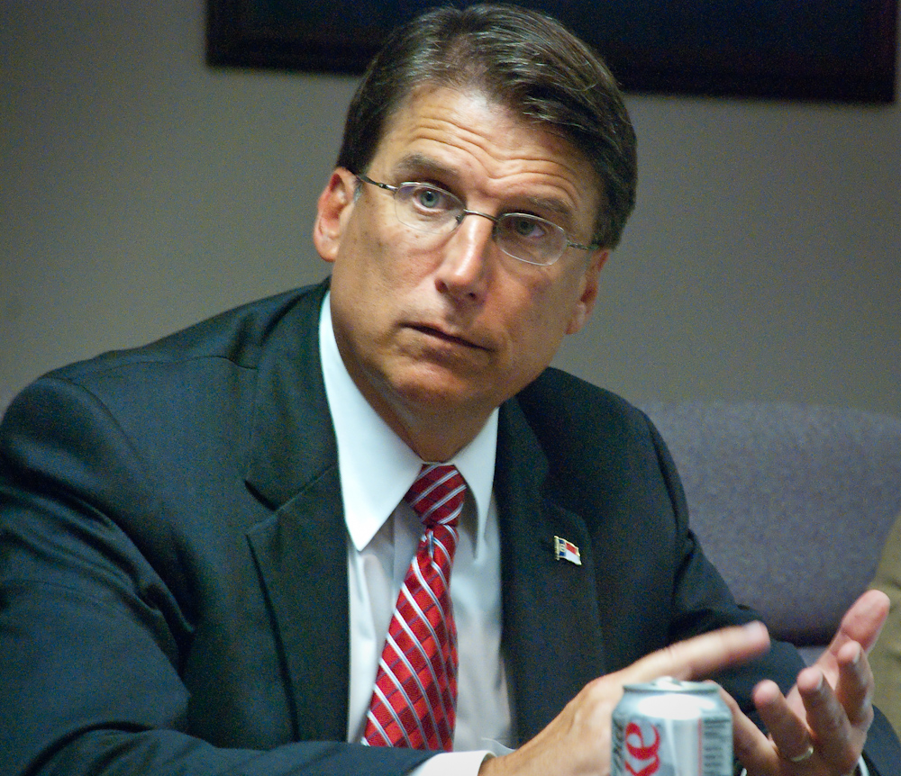 7-time Mayor of Charlotte and Republican nominee for Governor of North Carolina. At Cary Innovation Center, July 11, 2012.